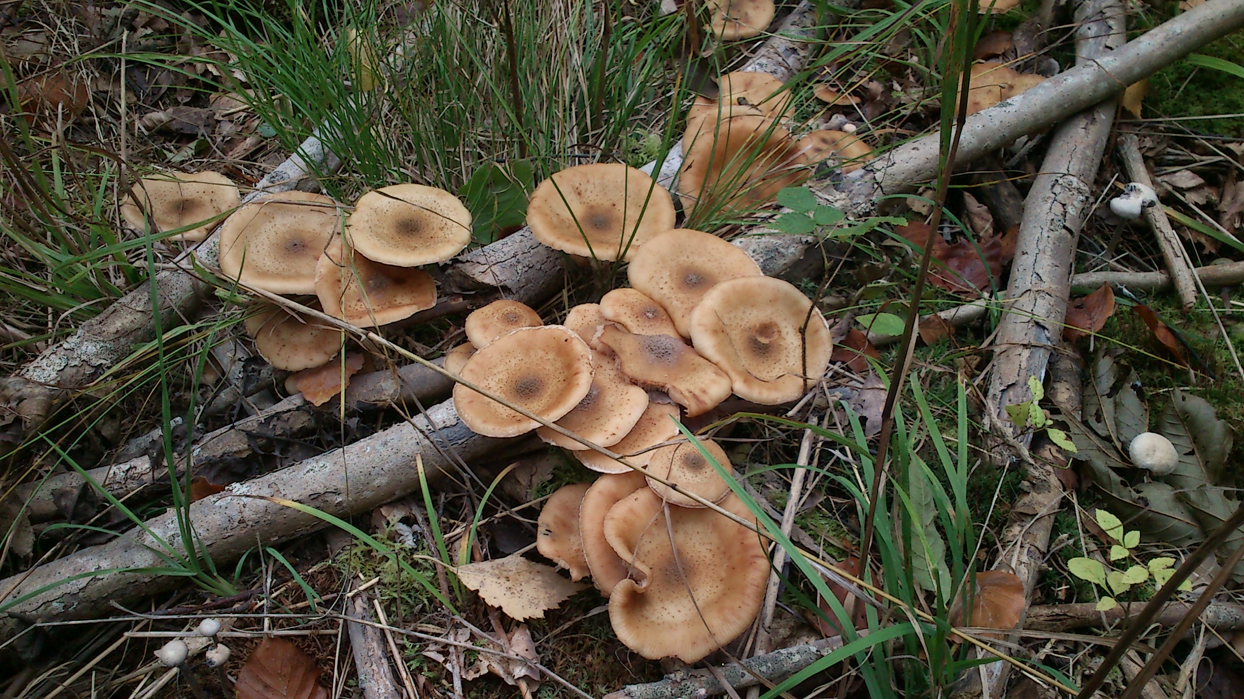 Armillaria sp., probably Armillaria borealis.